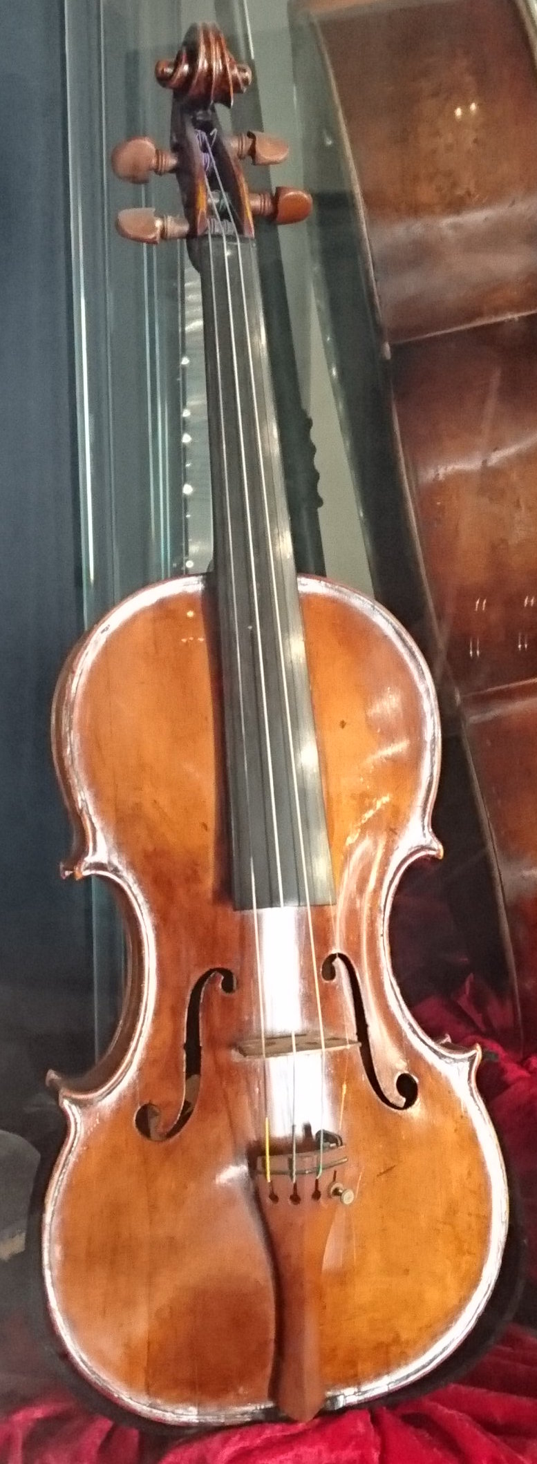 Violin built by Don Nicola Amati in 1760 in Bologna Artemio Maestro Versari collection